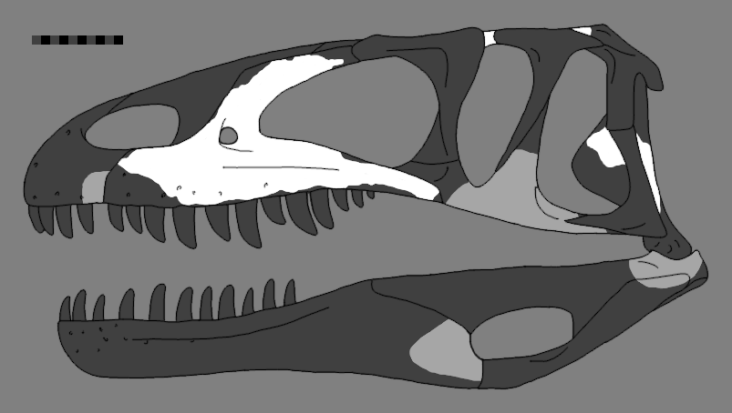 Reconstructed skull of the holotype and only specimen of Leshansaurus qianweiensis based on the possibly related megalosaurid Dubreuillosaurus valesdunensis. Scale bar is 10cm, image is 10px/cm. Cranial anatomy from figures in Fei et al. (2009) "A new carnosaur from the Late Jurassic of Qianwei, Sichuan, China". White bones are figured, light grey bones are unfigured and minimally described.